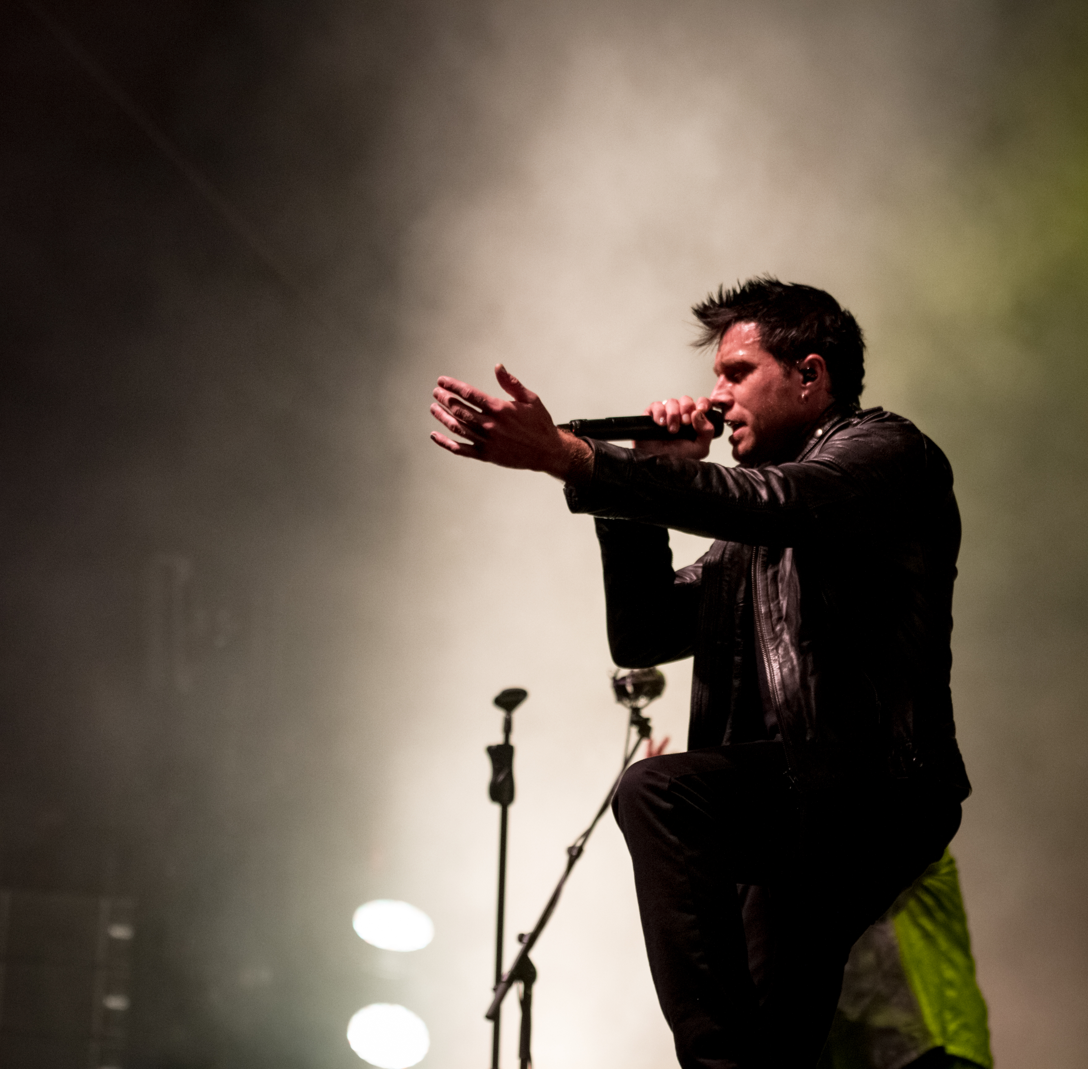 Three Days Grace - Rock am Ring 2015